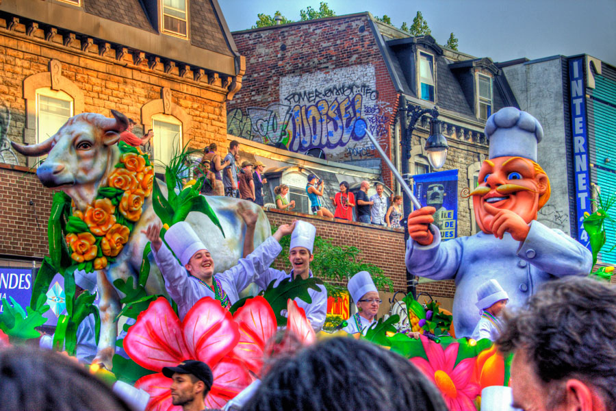 Mardi Gras parade on Ste. Catherine St. in 2010